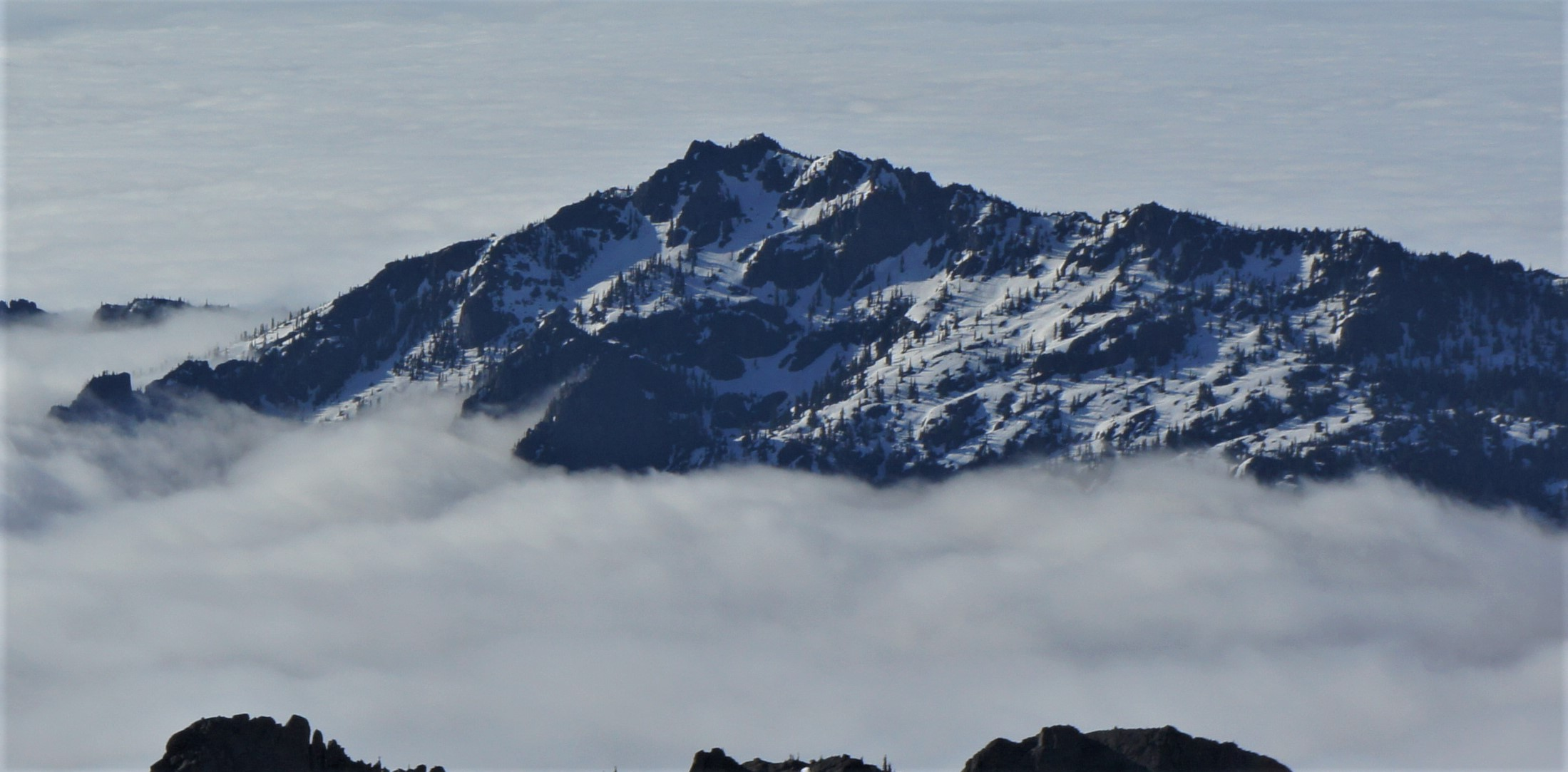 Mt. Jupiter from Mt. Constance